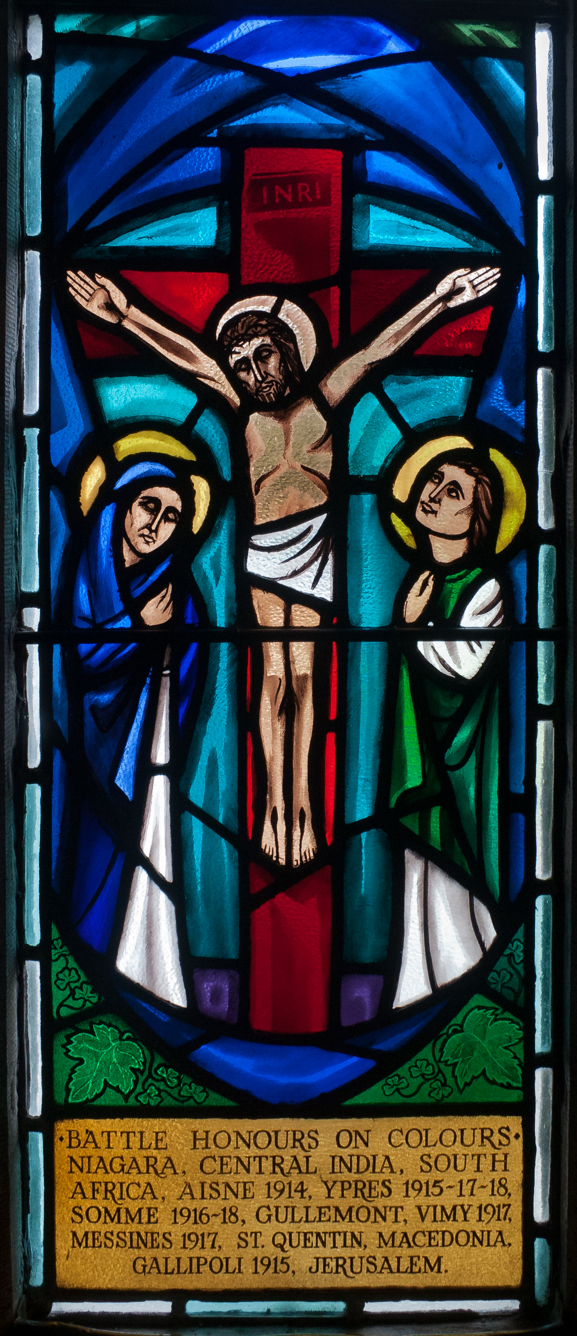 Lower section of the right light of the memorial window dedicated to the Prince of Wales's Leinster Regiment in Birr. Created by artist Michael Dunne in 1964.